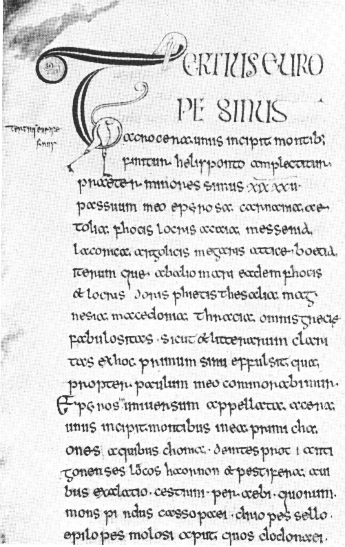 Pliny the Elder, Natural History, beginning of Book 4, in ms. Leiden, Bibliothek der Rijksuniversiteit, Voss. Lat. F. 4, fol. 20v.